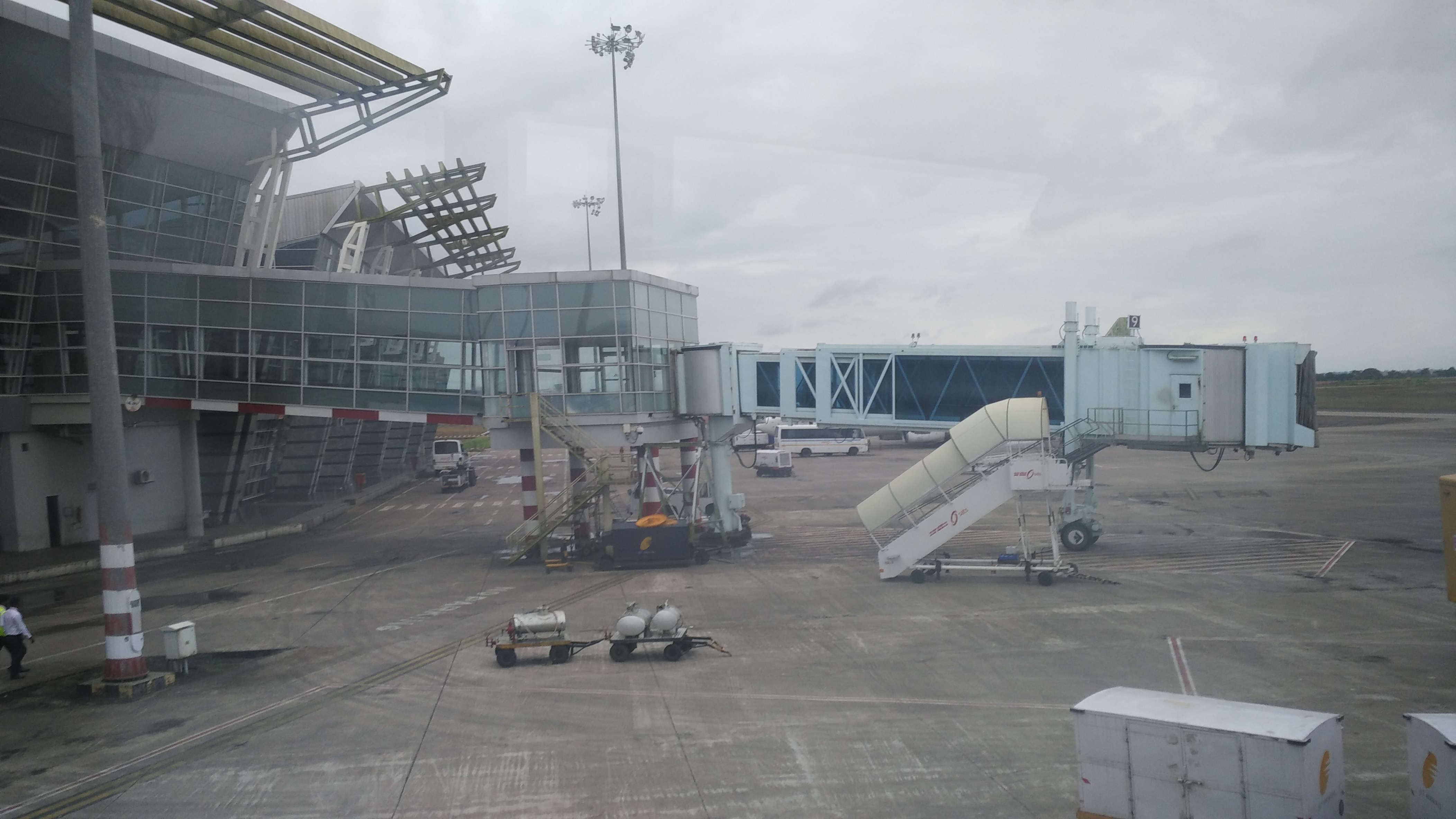 One of two jet bridge or aero bridge at Mangalore airport.